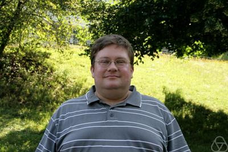 Torsten Wedhorn, Oberwolfach 2012